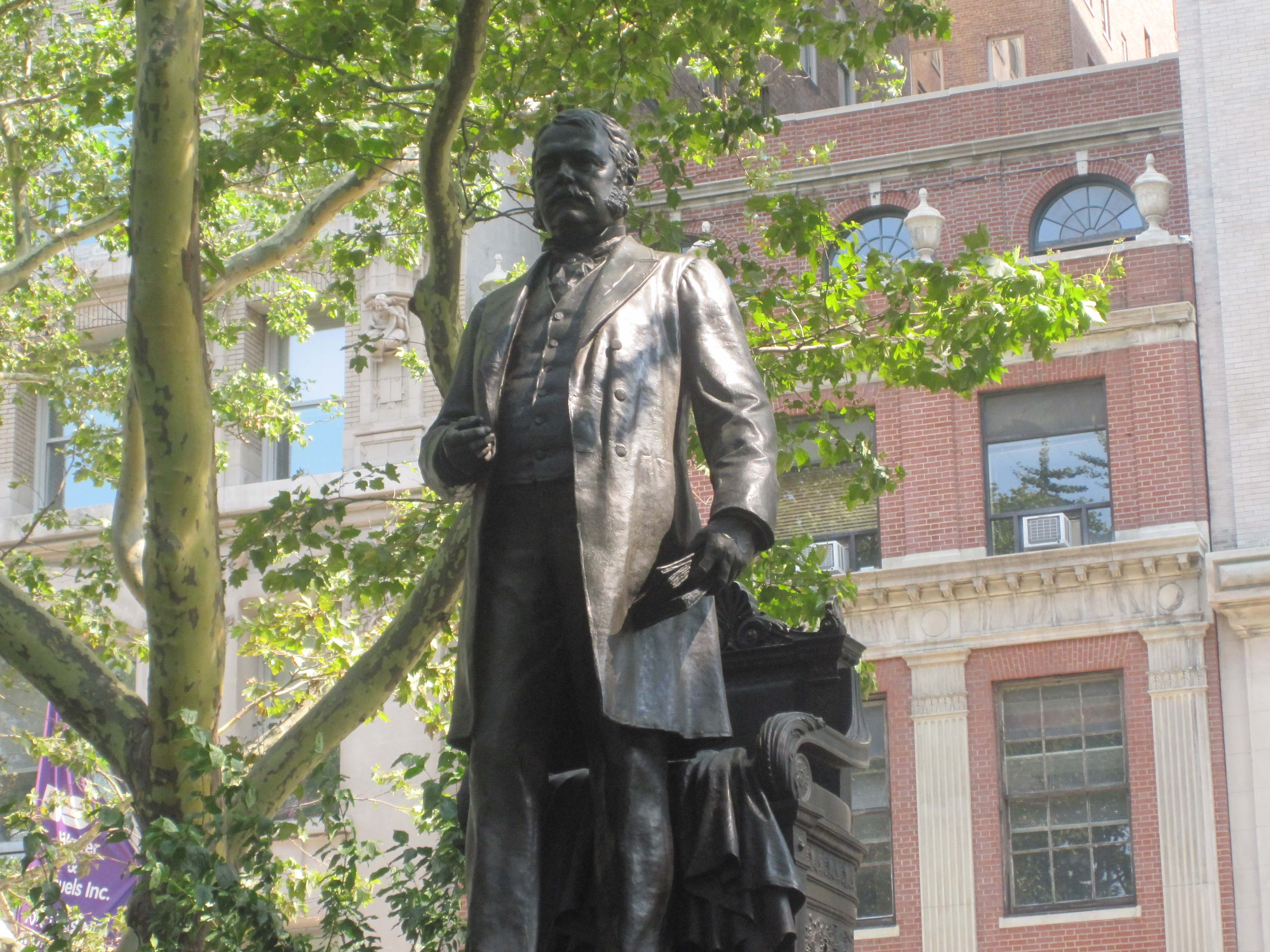 Looking northwest at Chester Arthur statue in the northeastern part of Madison Square Park on a sunny summer afternoon.